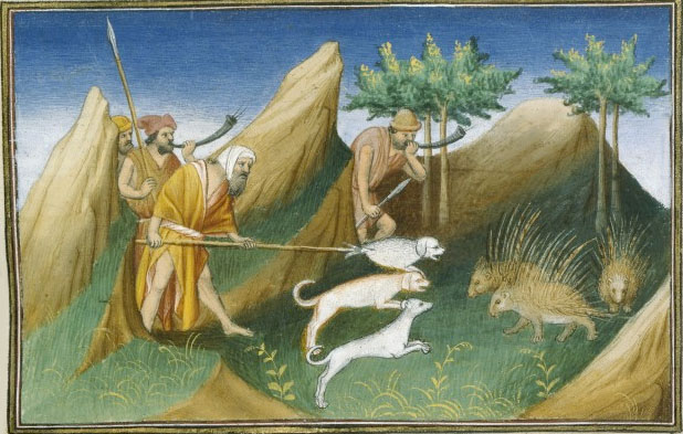 Miniature from the Book "The Travels of Marco Polo" ("Il milione"), originally published during Polo's lifetime (c. 1254 - January 8, 1324), but frequently reprinted and translated.